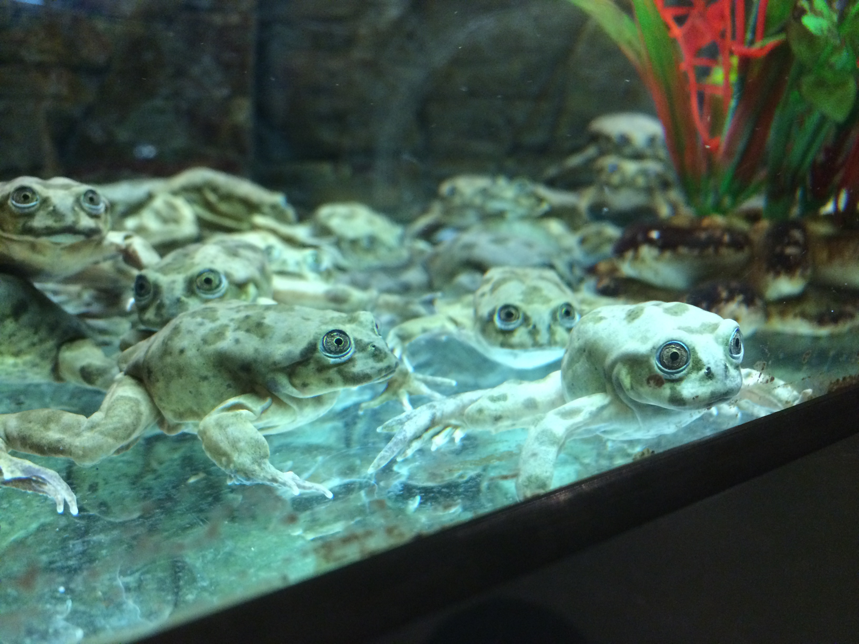 Young Lake Titicaca frogs in Denver Zoo's Tropical Discovery